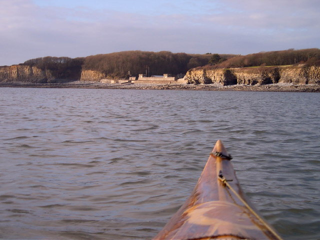 St Donats Castle from my sea kayak. St Donats Castle has a very colourful history but is now the home of an international sixth form college (Atlantic College)